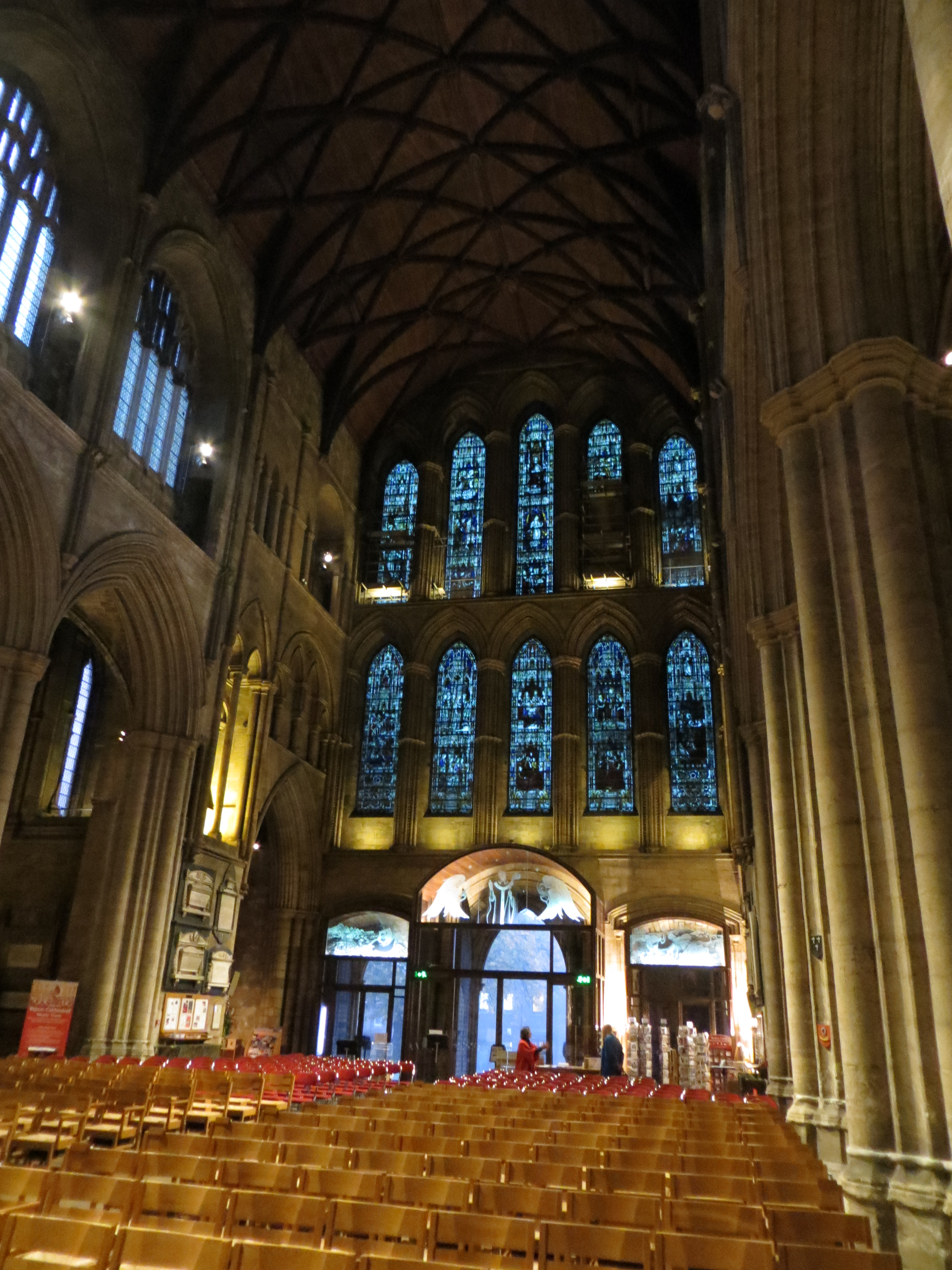 West end of Ripon Cathedral across the nave.